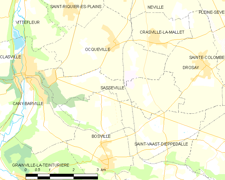 Map of French municipality Sasseville